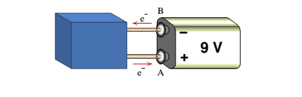 pilha